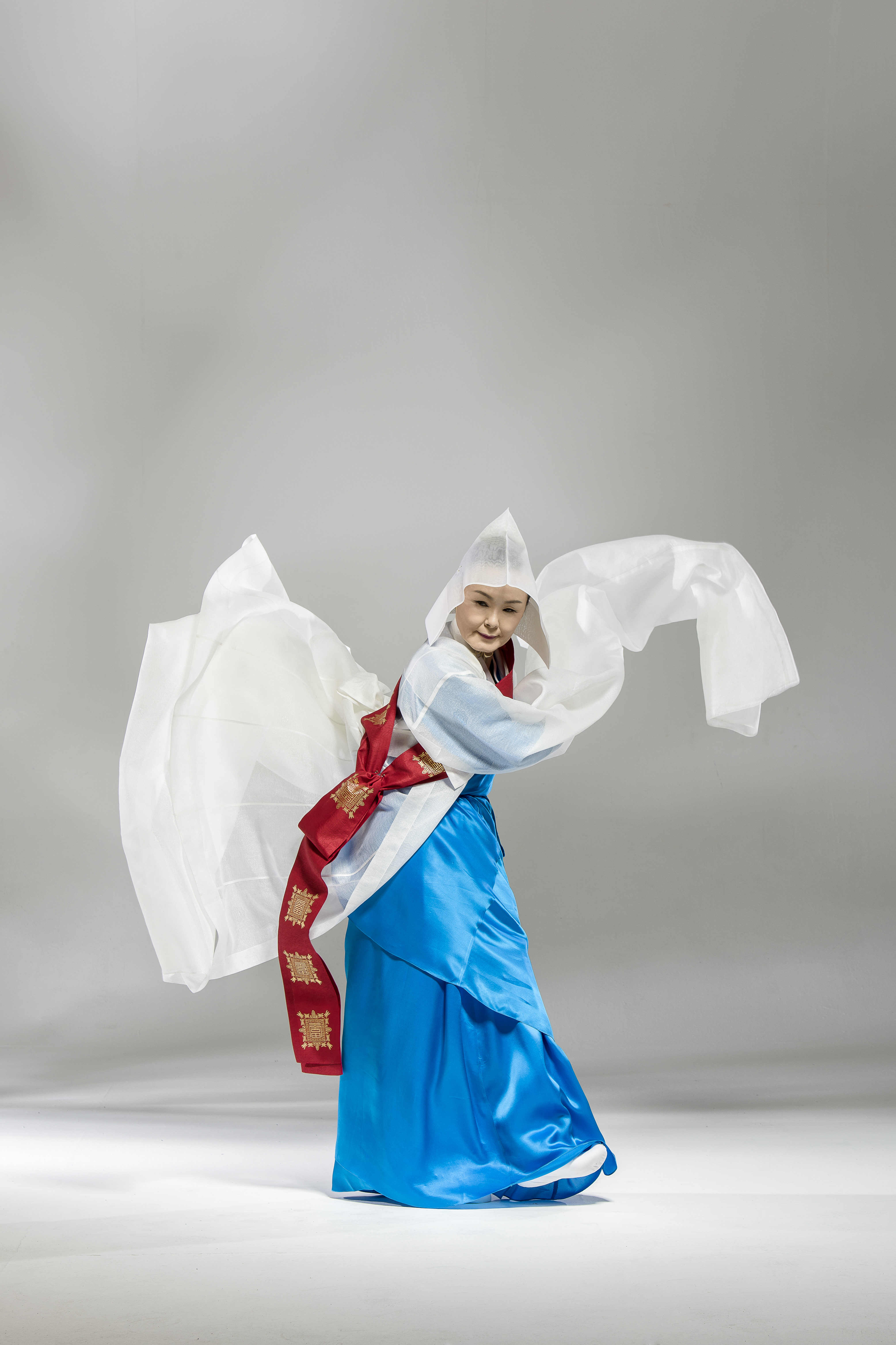 Master Assistant Kim Myo Seon performing the Seungmu dance, in the traditional Changsam costume.